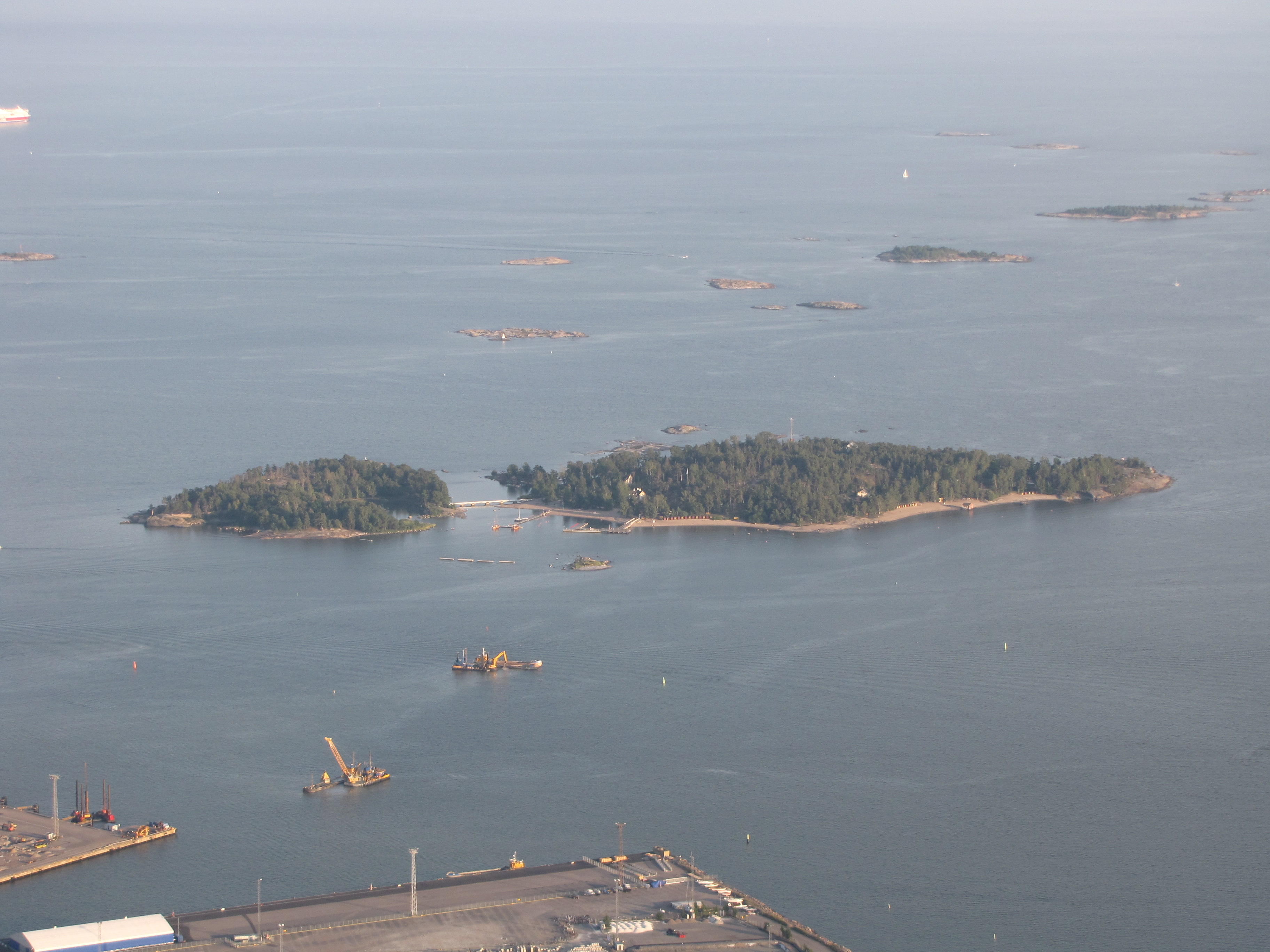 Pihlajasaaret isles photographed from a hot air balloon.